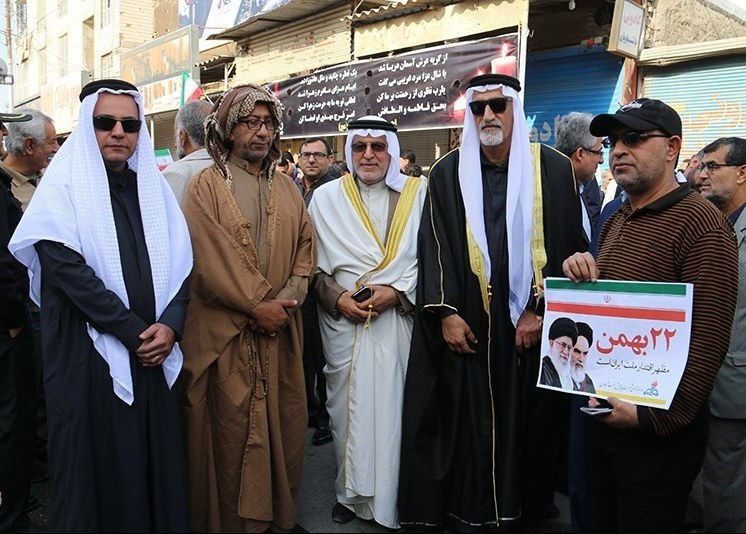 Anniversary of Islamic Revolution in Abadan- 11 February 2018